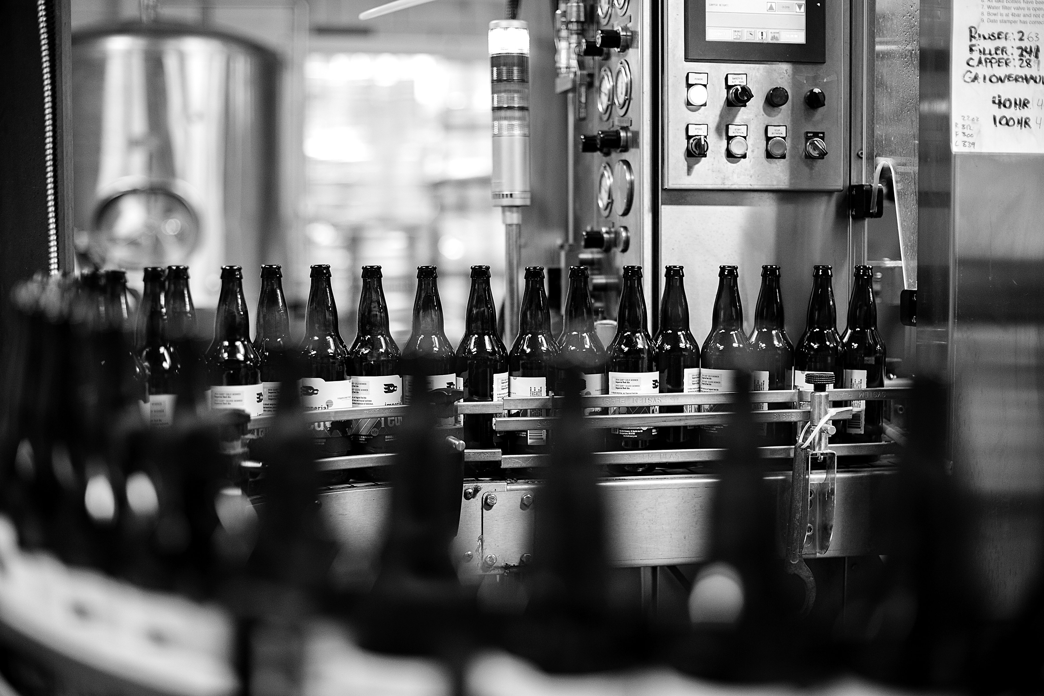 Marble Brewery Bottling Line